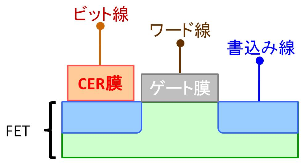 Structure of Resistive Random Access Memory